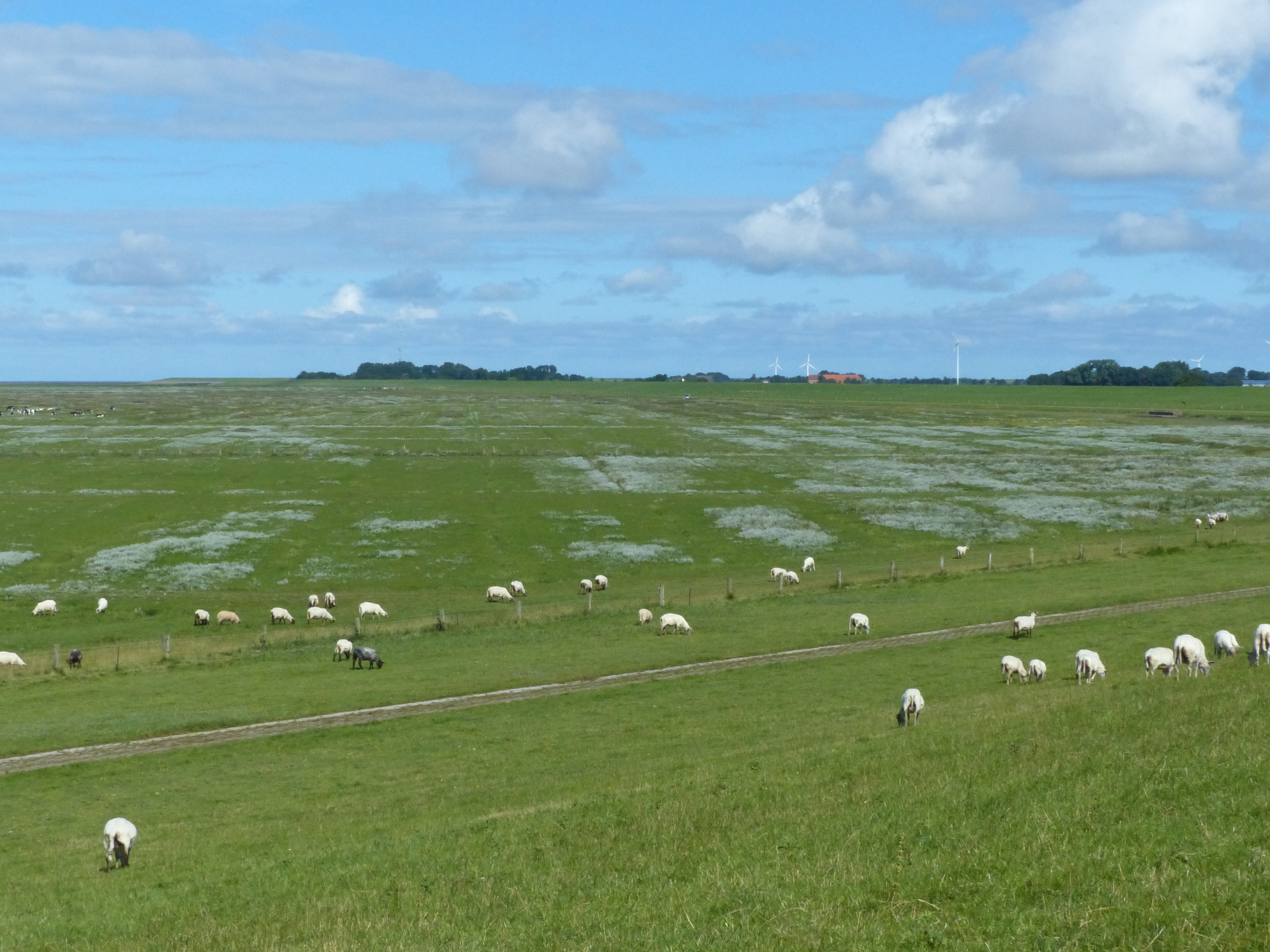 Salt grassland "Buscher Heller" on the eastern coast of Leybucht. Among the left group of trees behind the dike there ist the ancient broadcast post of Radio Norddeich.